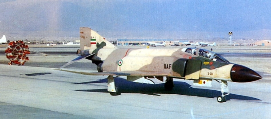 IIAF F-4D Phantom II landing using its brake chute to assist in stopping